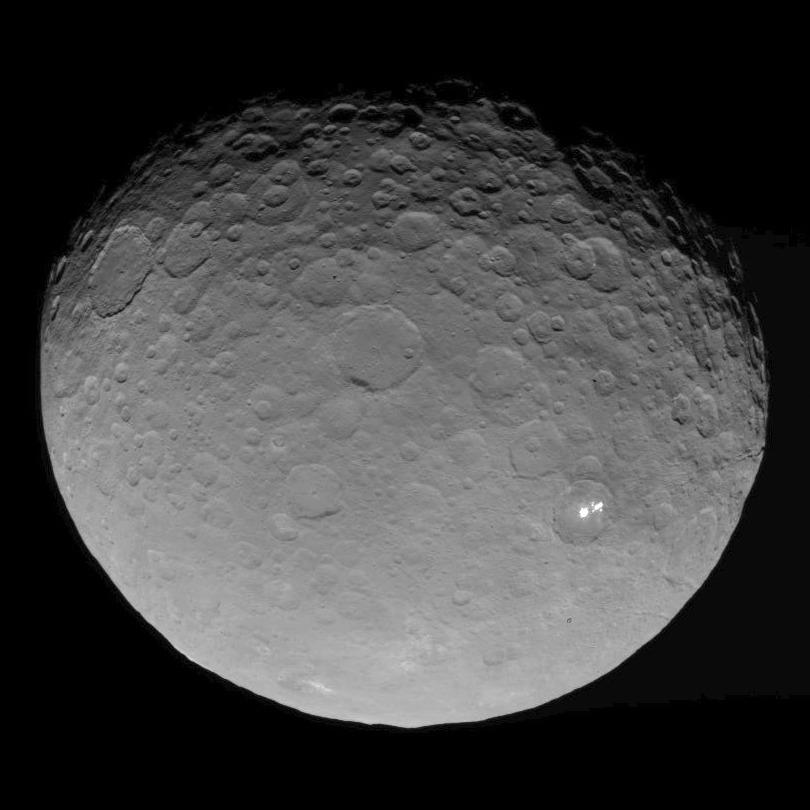 PIA19545: Dawn RC3 Image 11 This image of Ceres is part of a sequence taken by NASA's Dawn spacecraft on May 4, 2015, from a distance of 8,400 miles (13,600 kilometers). Dawn's mission is managed by JPL for NASA's Science Mission Directorate in Washington. Dawn is a project of the directorate's Discovery Program, managed by NASA's Marshall Space Flight Center in Huntsville, Alabama. UCLA is responsible for overall Dawn mission science. Orbital ATK, Inc., in Dulles, Virginia, designed and built the spacecraft. The German Aerospace Center, the Max Planck Institute for Solar System Research, the Italian Space Agency and the Italian National Astrophysical Institute are international partners on the mission team. For a complete list of acknowledgements, visit